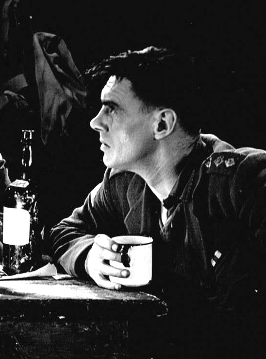 Publicity Photo for Journey's End (1929). Colin Clive